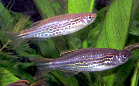 Both colour morphs of Danio kyathit, showing iridescence